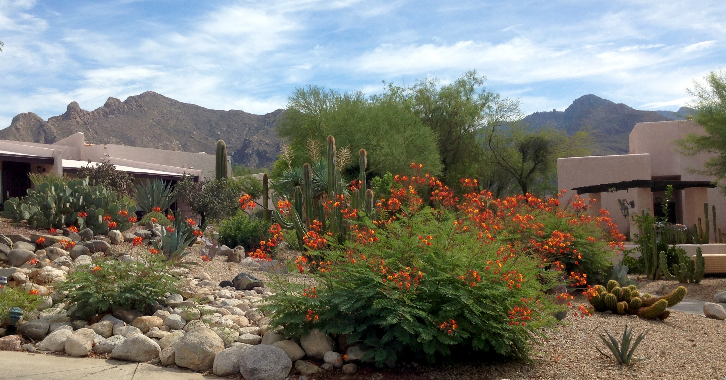 Not a bad place to spend 2 days for a conference gig- Tucson